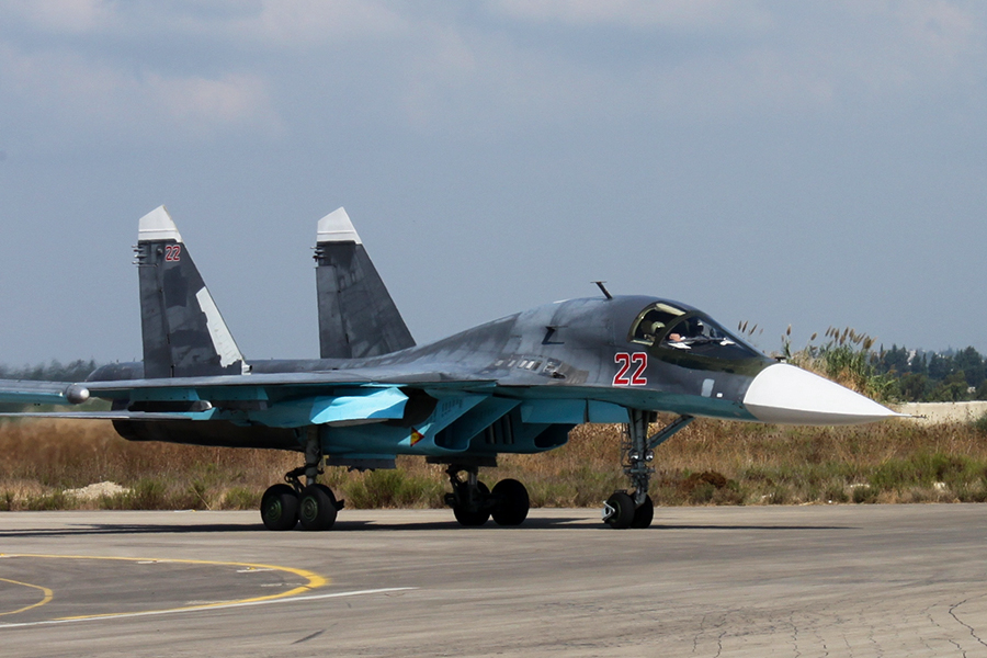 Russian military aircraft at Latakia, Syria